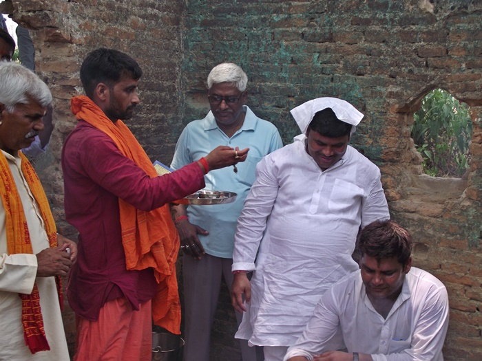 Worship of Lord Shiva Gadh Deveshwer Mahadeo at Raja Lone Singh's Castle, Mitauli of Kheri district, India